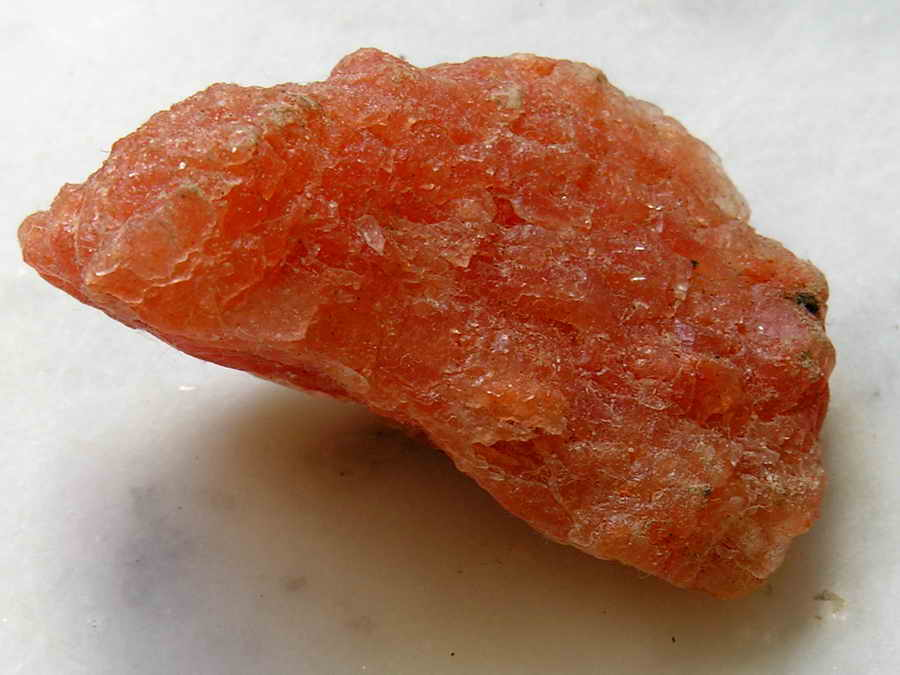 Self made. For my own collection